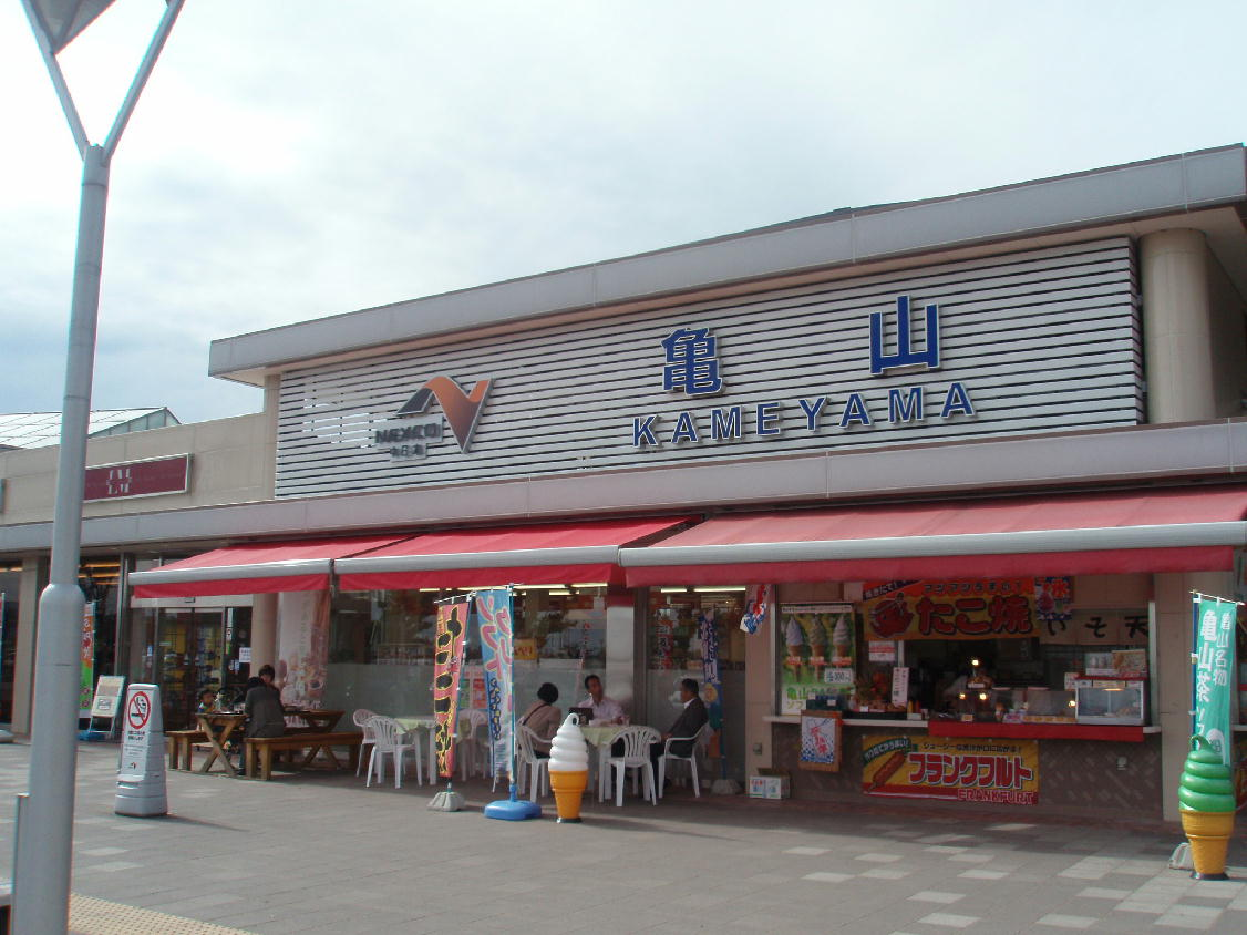 Higashi-Meihan Expressway, Kameyama Parking Area